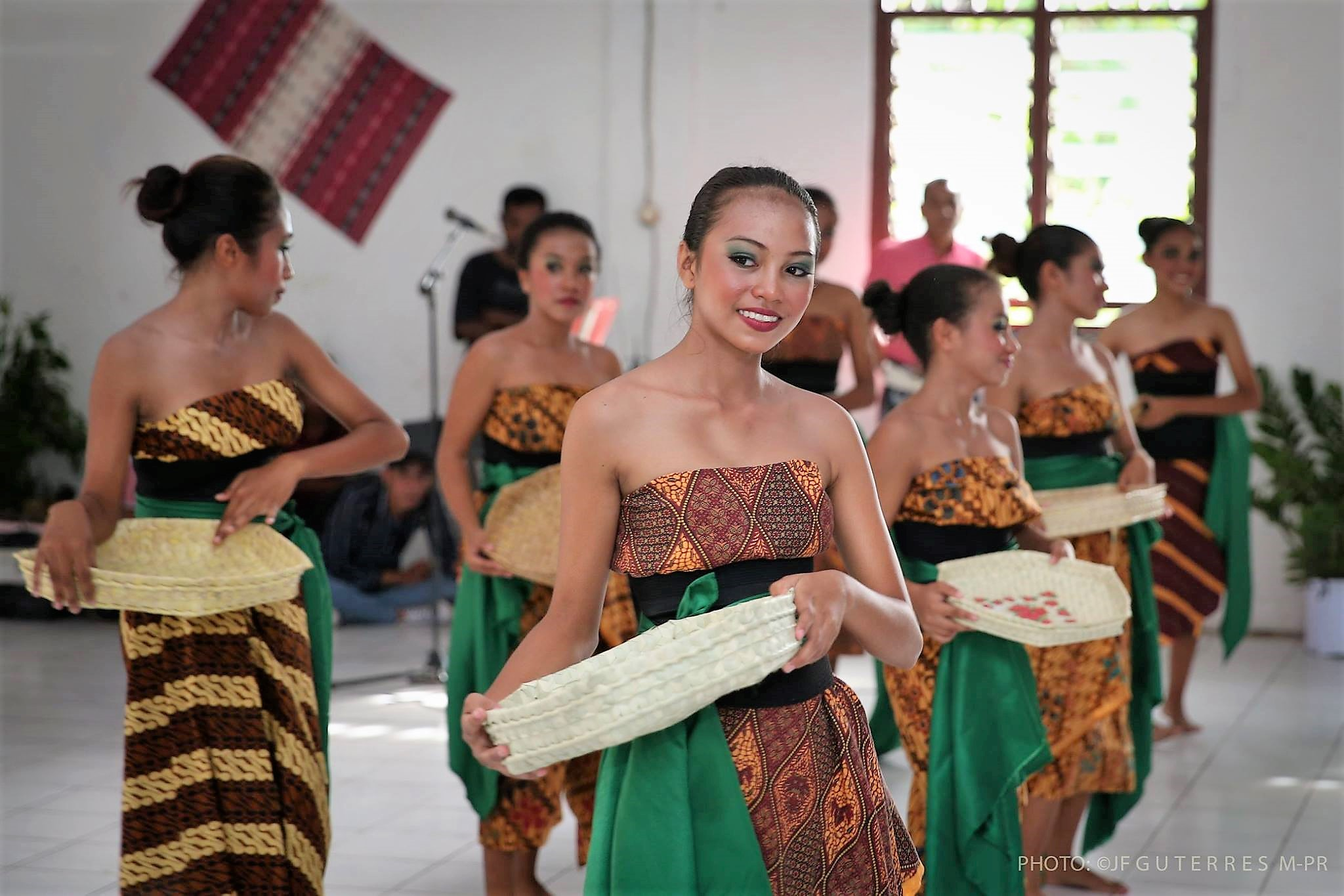 Traditional dancers are welcoming president Francisco Guterres at Oecusse